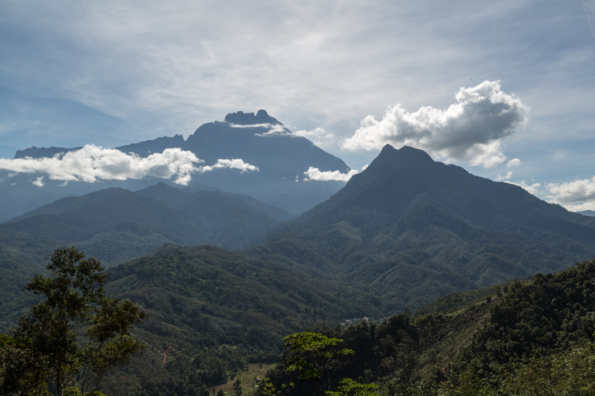 District Ranau, Sabah: View of Mount Nungkok. In the background Mt Kinabalu